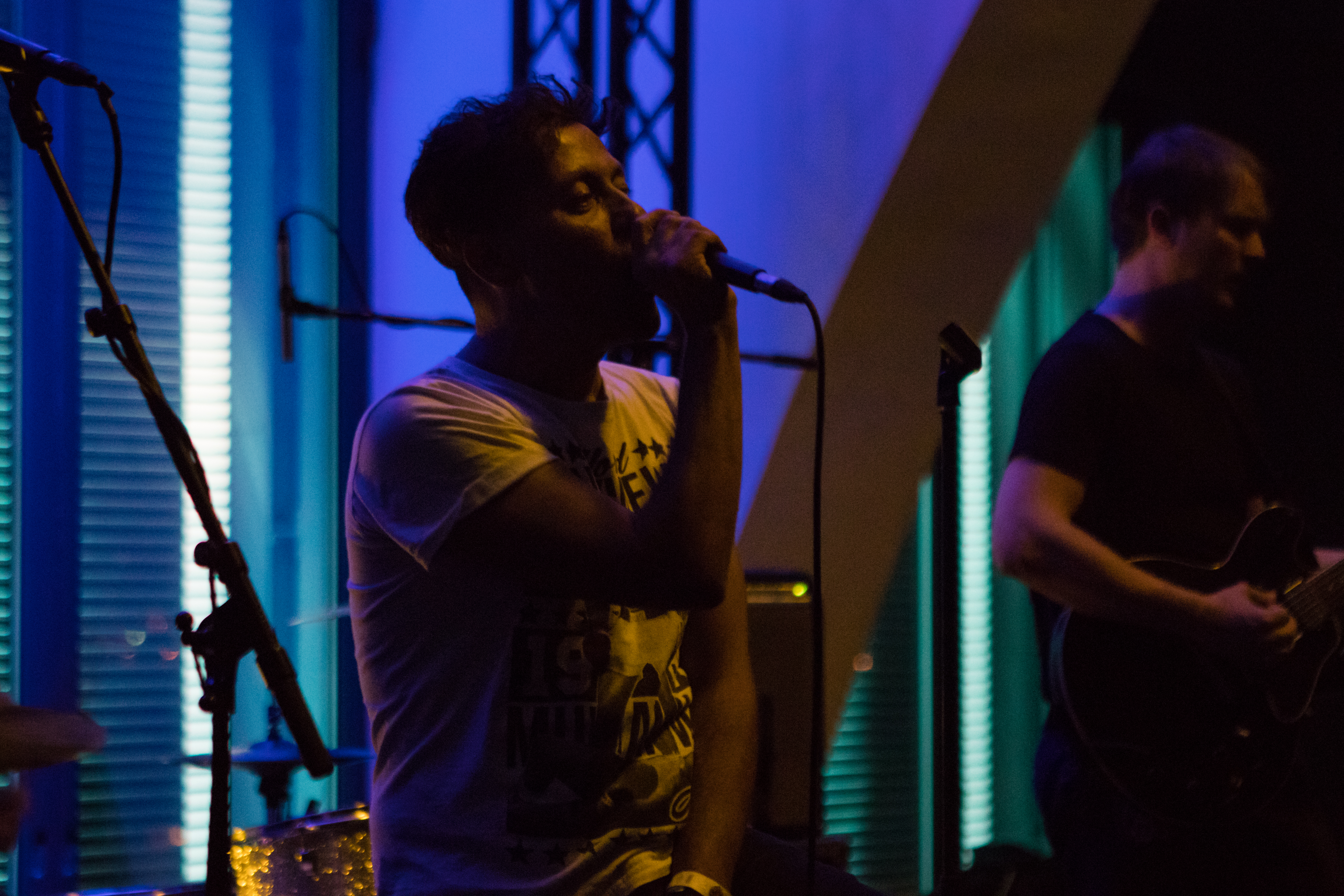 Abay at Way Back When Festival 2017 in Dortmund